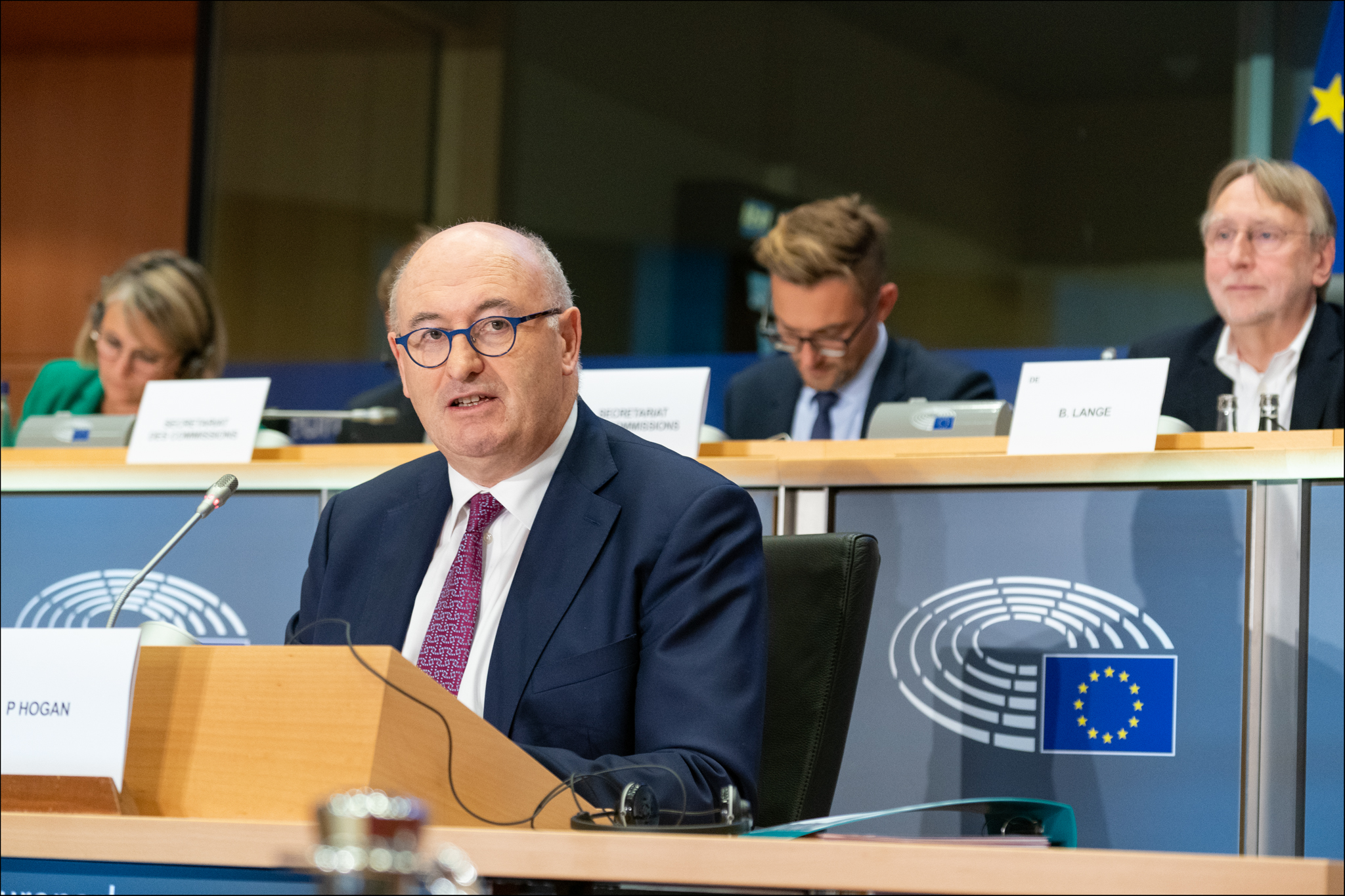 Before the European Parliament can vote the new European Commission led by Ursula von der Leyen into office, parliamentary committees will assess the suitability of commissioners-designate. On 23-26 May, more than 200,000,000 people in 28 EU countries went to the polls to elect members of the European Parliament, giving them a strong democratic mandate, including voting into office the new European Commission and examining the competencies and abilities of its commissioners-designate. Elected members of the European Parliament will also listen to their ideas and will assess their willingness to take concrete actions on the issues that Europeans care about. Each candidate commissioner is invited for a live-streamed, three-hour hearing in front of the committee or committees responsible for their proposed portfolio. The hearings will take place between Monday 30 September and Tuesday 8 October. This photo is free to use under Creative Commons license CC-BY-4.0 and must be credited: "CC-BY-4.0: © European Union 2019 – Source: EP". No model release form if applicable. For bigger HR files please contact: webcom-flickr(AT)